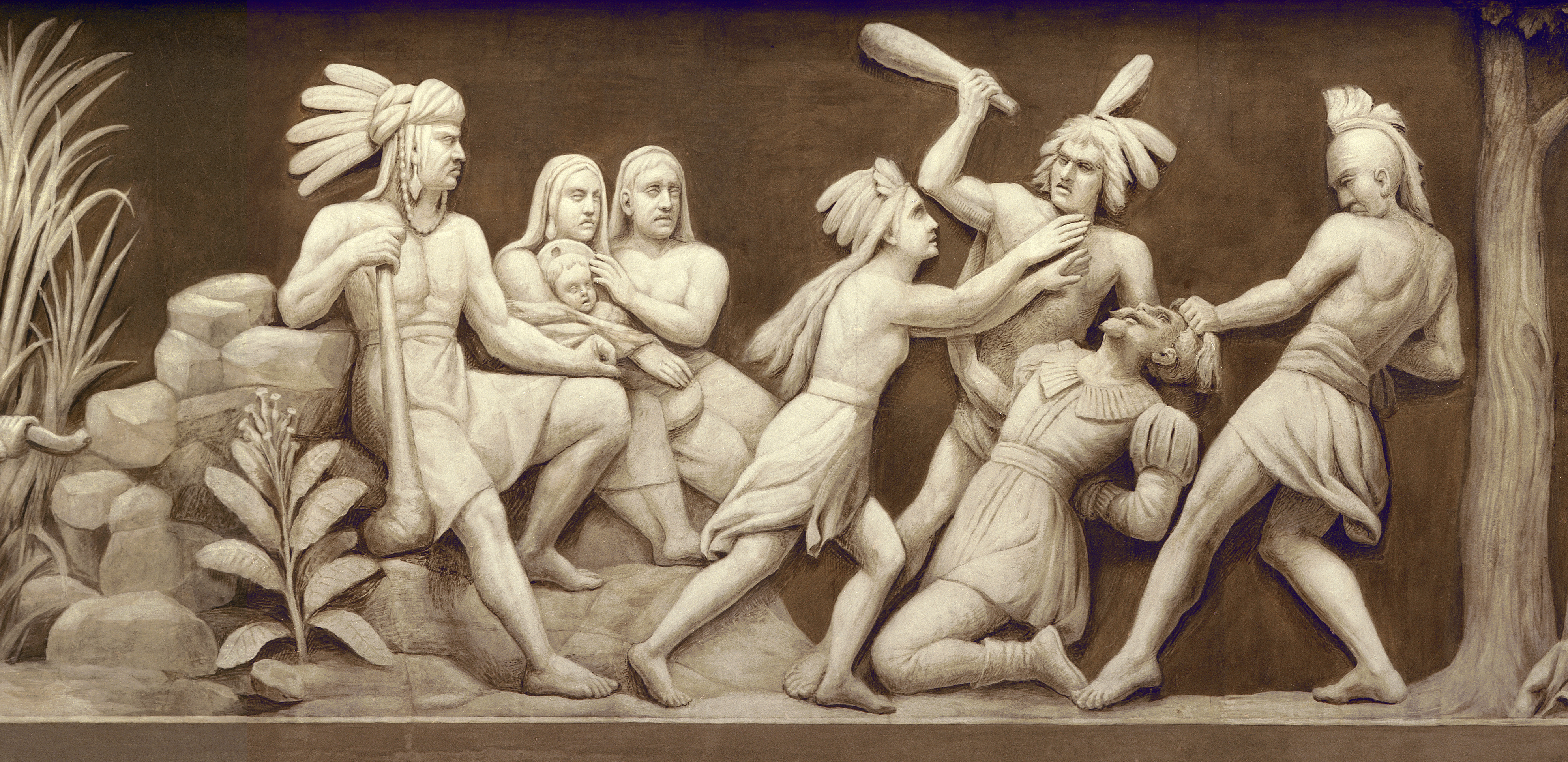 "Captain Smith and Pocahontas" - Pocahontas saves Captain John Smith, one of the founders of Jamestown, Virginia, from being clubbed to death.